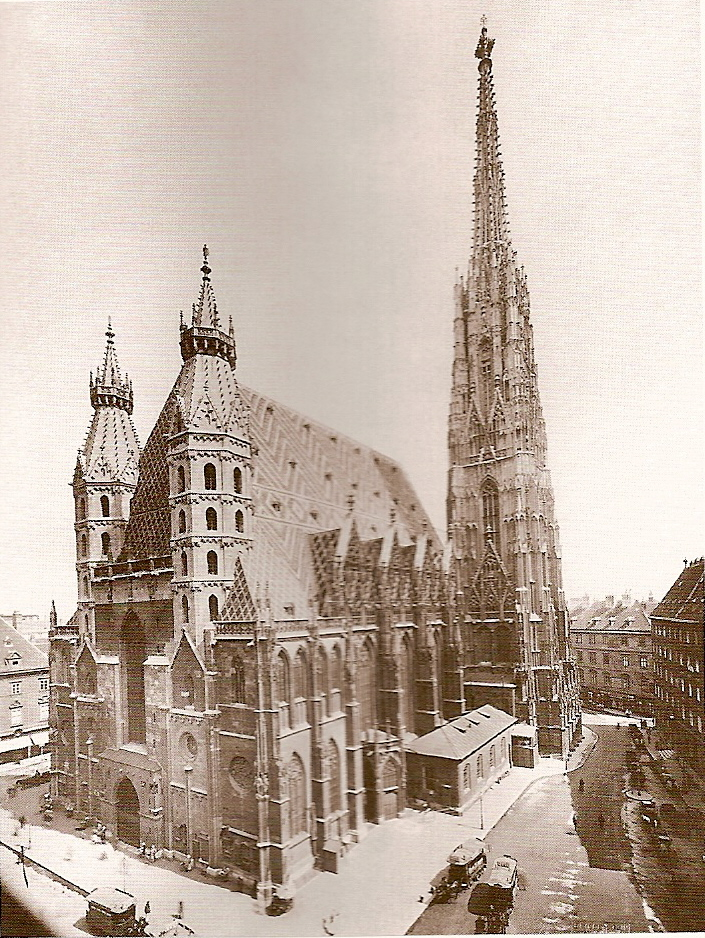 St. Stephen's Cathedral of Vienna around 1905.